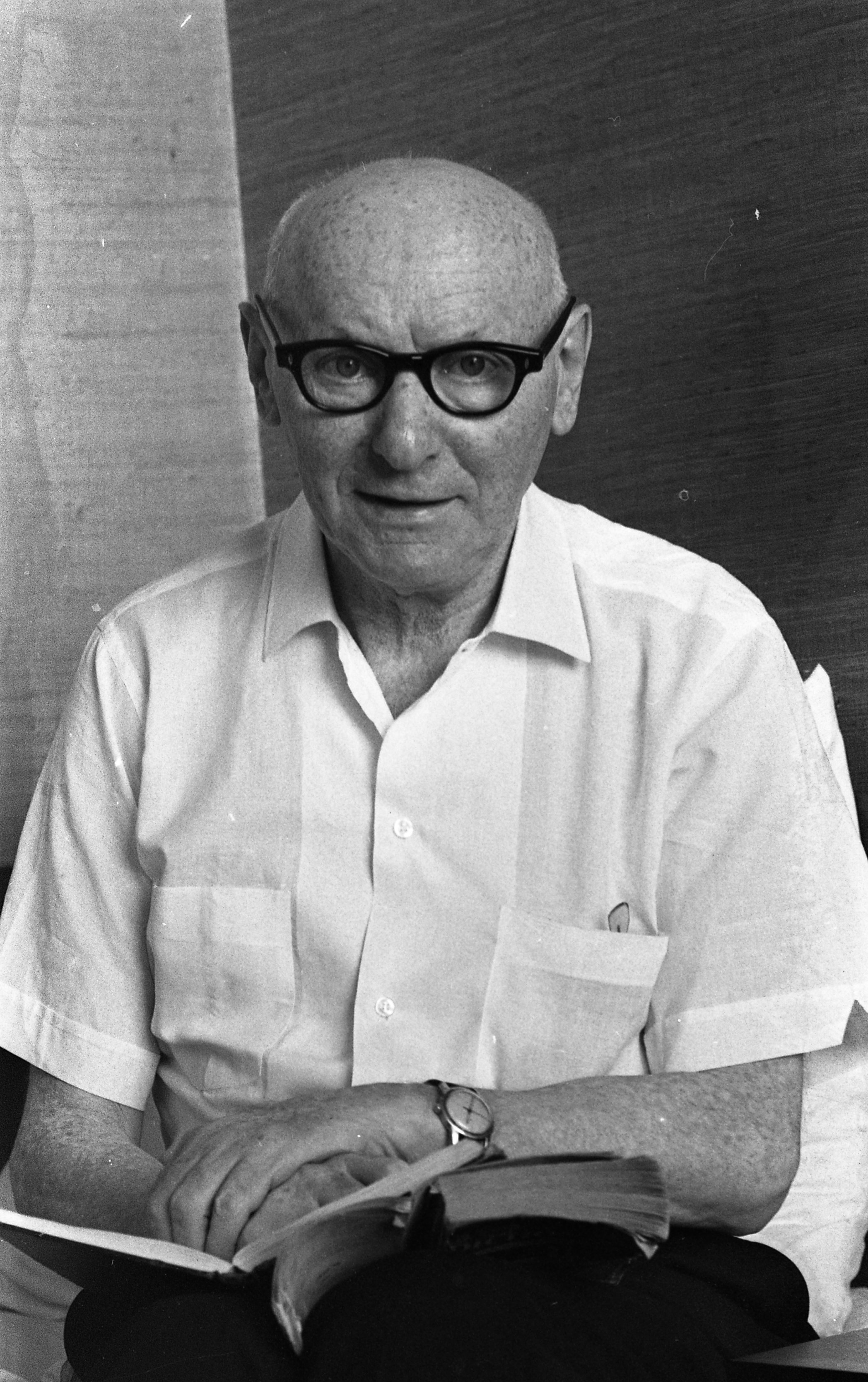 Nobel prize. Isaac Bashevis Singer